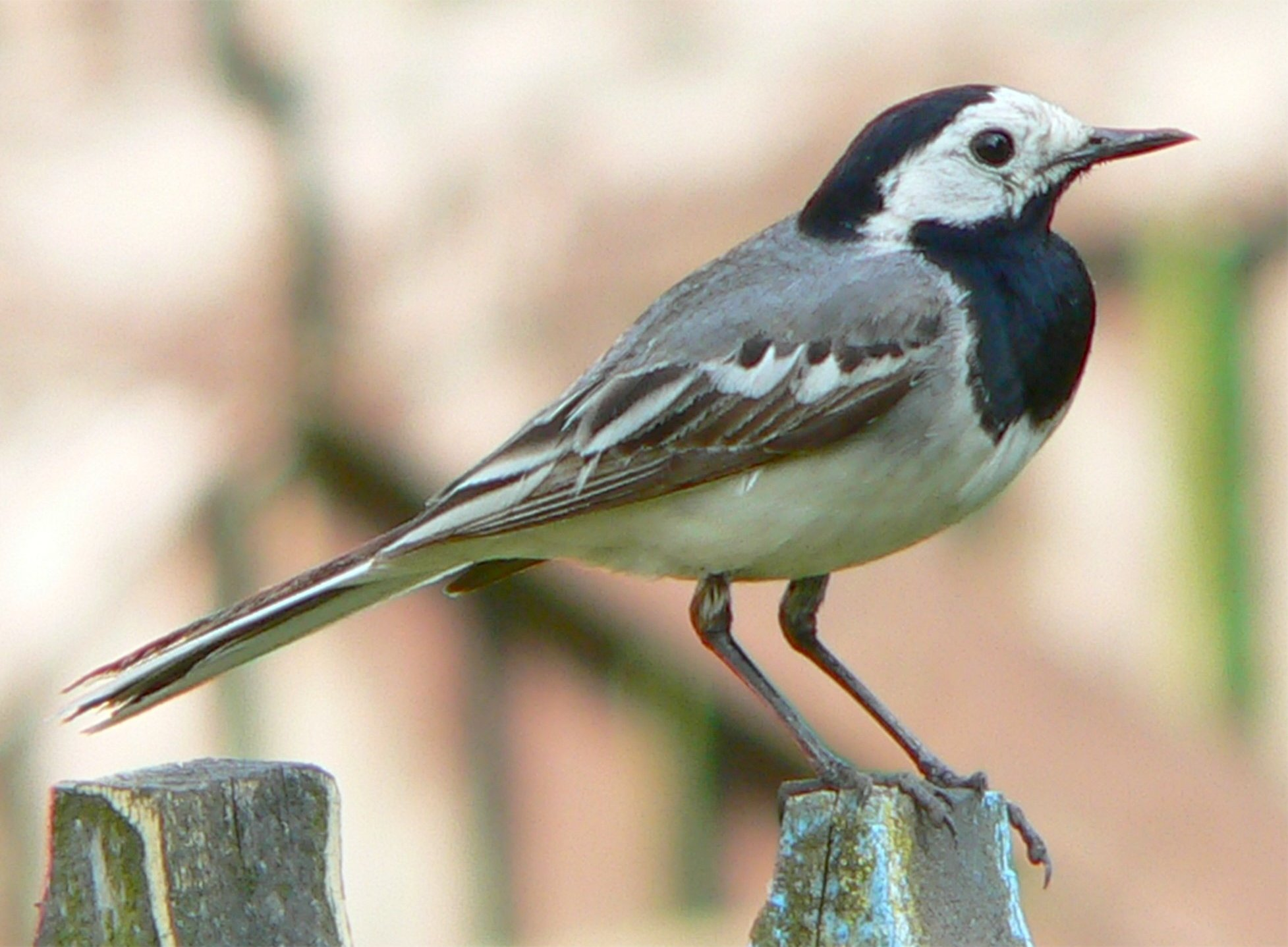 White Wagtail (Motacilla alba alba), Biebrza National Park, Poland.